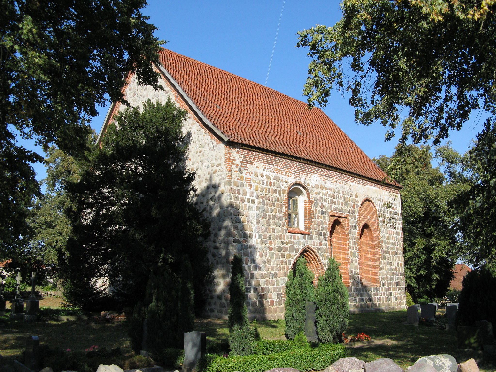 Church in Duckow, disctrict Demmin, Mecklenburg-Vorpommern, Germany